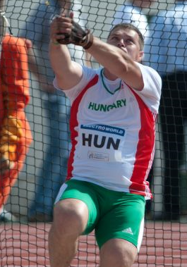 Krisztián Pars at the 2010 European Team Championship